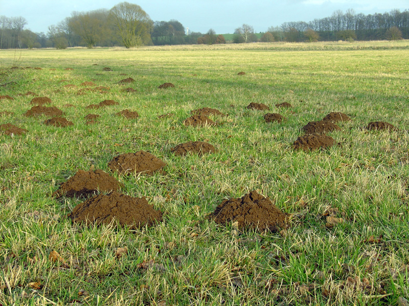 Molehill in East Bohemia (Krtiny)